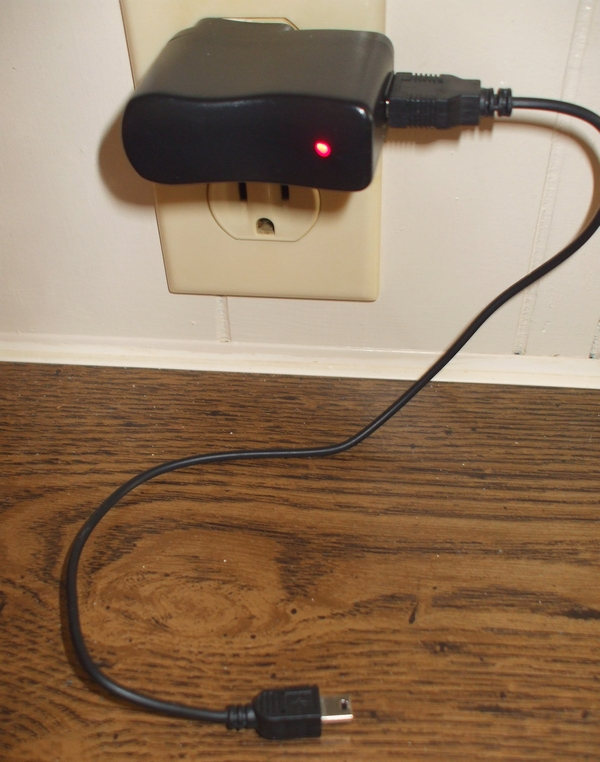 USB wall charger